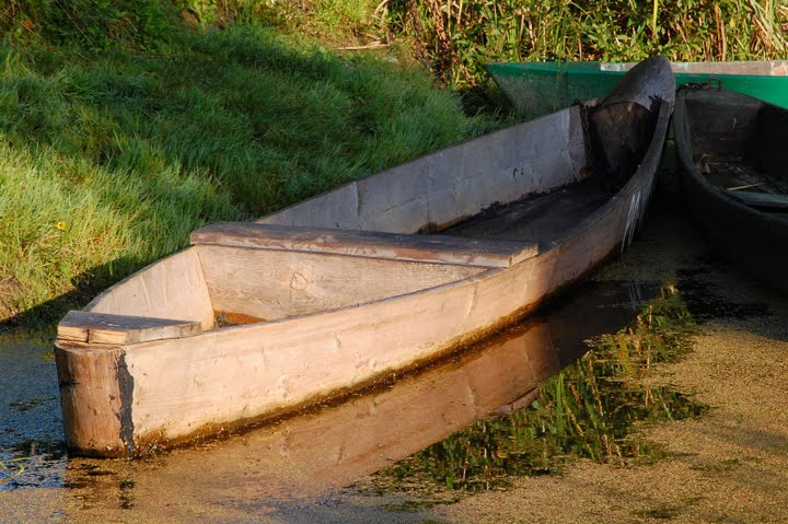 An open flatbottom boat used in Narew river Poland propelled by a long pole.